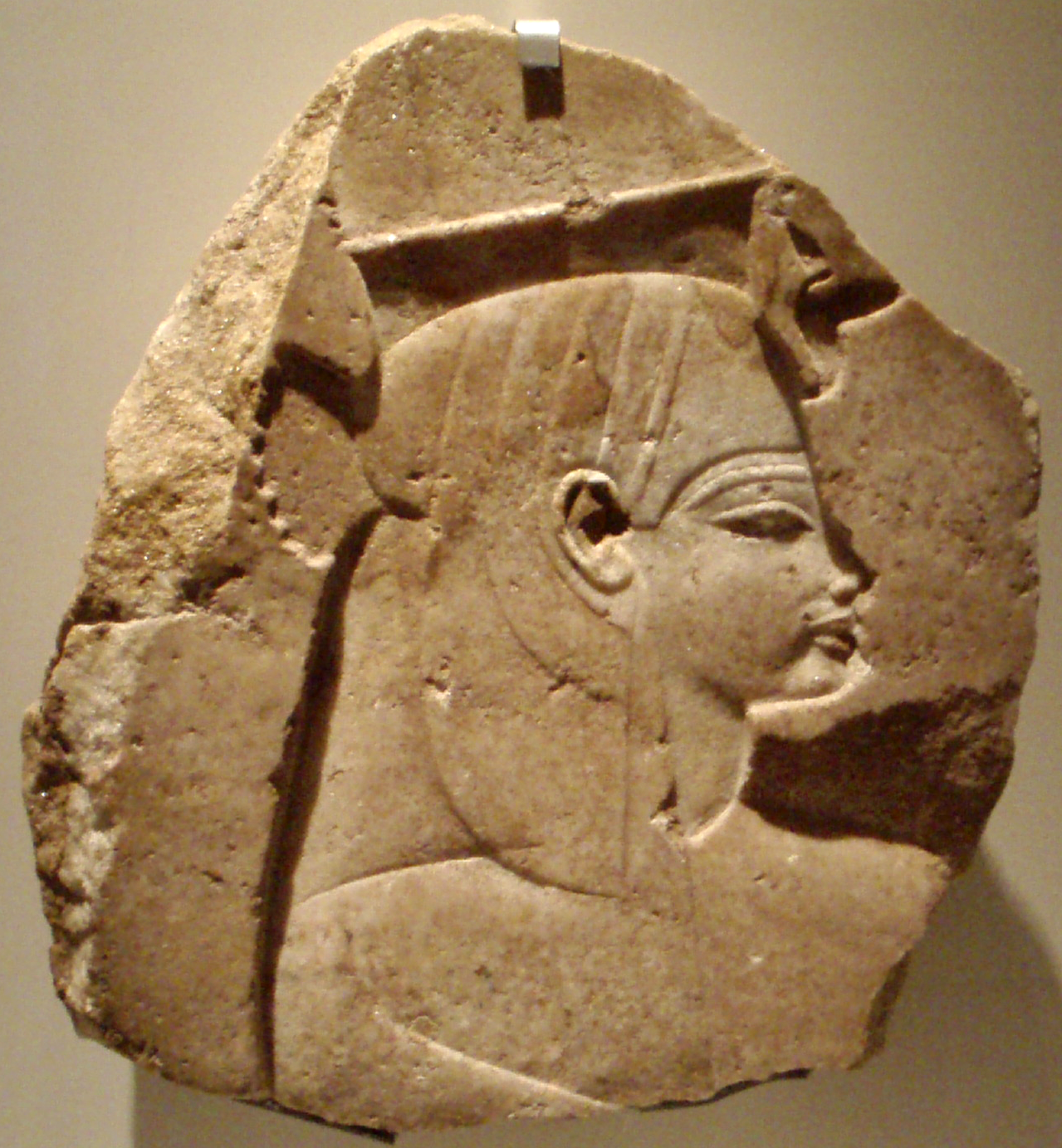 Relief portrait of Queen Tiy. New Kingdom, 18th dynasty, circa 1360 B.C. Image taken at the Altes Museum, Berlin (part of the Ägyptisches Museum Berlin collection).